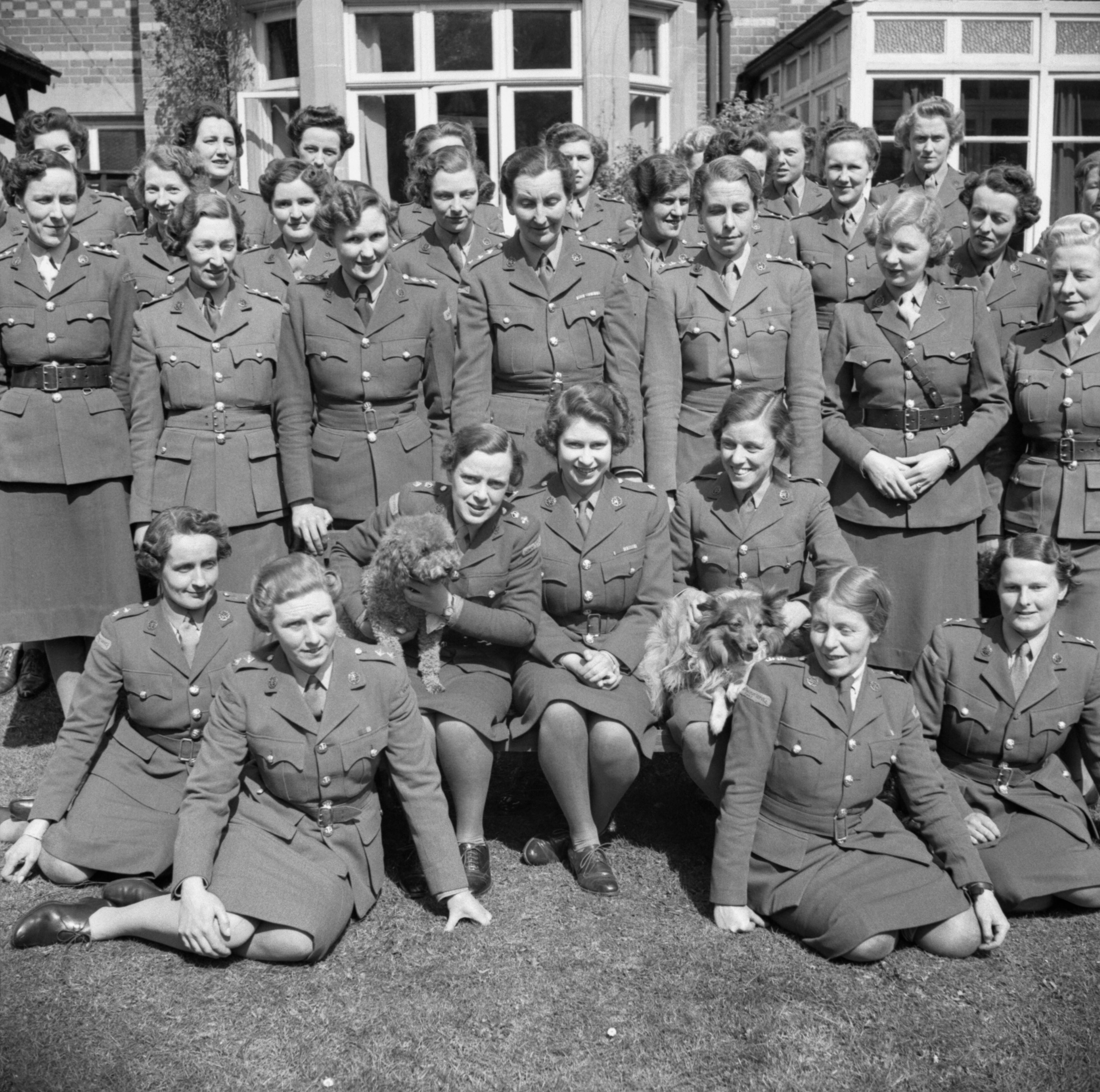 Hrh Princess Elizabeth Undergoing Instruction at the Auxiliary Territorial Service Training Centre, April 1945 HRH Princess Elizabeth (centre) with officers of the ATS Training Centre.